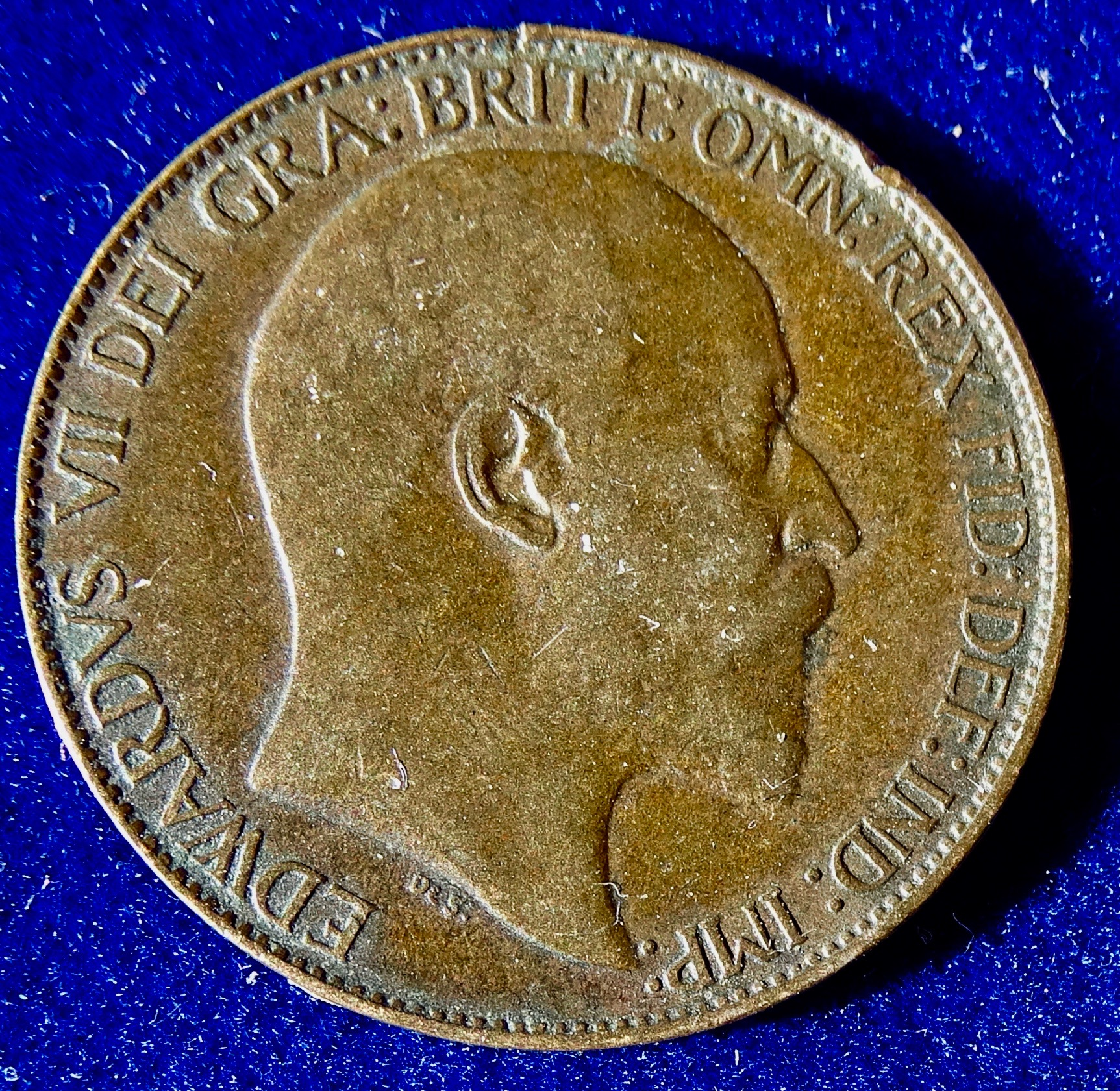 Great Britain dateless double Obverse Mule Halfpenny Edward VII 1902 to 1910, Error Coin. RARE. D. = 25 mm. 5.39 g Edward VII 1901-1910 Head r., surrounding: "EDWARDVS VII DEI GRA: BRITT: OMN: REX FID: DEF: IND: IMP:"/ Head r., surrounding: "EDWARDVS VII DEI GRA: BRITT: OMN: REX FID: DEF: IND: IMP:" KM 793 Medallist: DE S. (George William de Saulles), Sculptor, 1862 Birmingham - 1903 Chiswick, West London, England Condition: FINE. 2 one sided edge nicks at 12 and 2 o'clock.